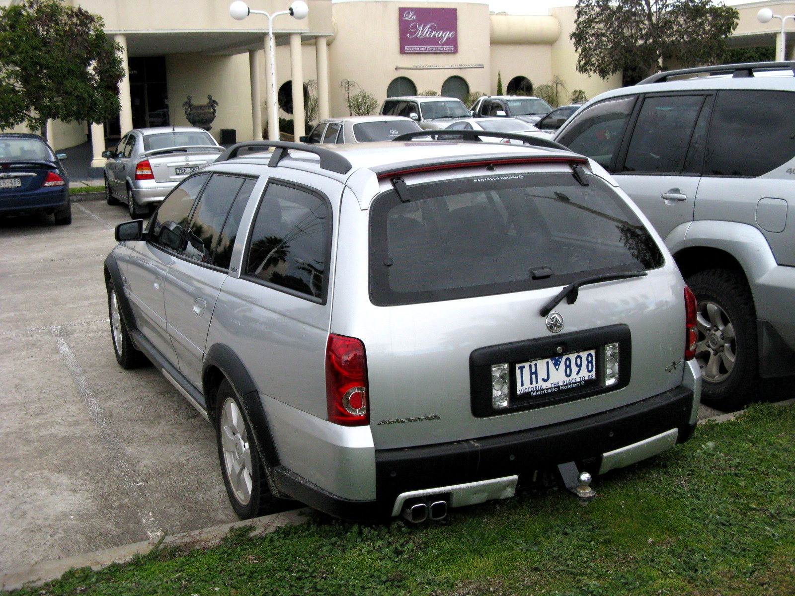 2004 Holden Adventra (VY II) LX8 station wagon. Photographed near Kilmore, Victoria, Australia. Vehicle registration enquiry resultsJurisdictionVictoriaRegistrationTHJ898Chassis code6G1ZM84F65L327593Engine codeVF041551122Compliance date2004-09Year of manufacture2004